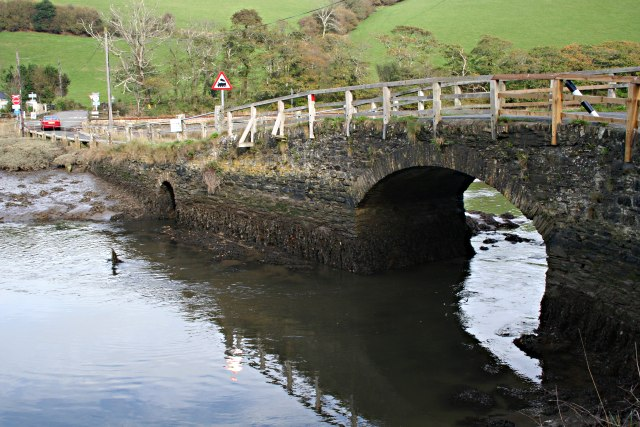 Terras Bridge This old road bridge takes a minor road across the tidal Looe River.